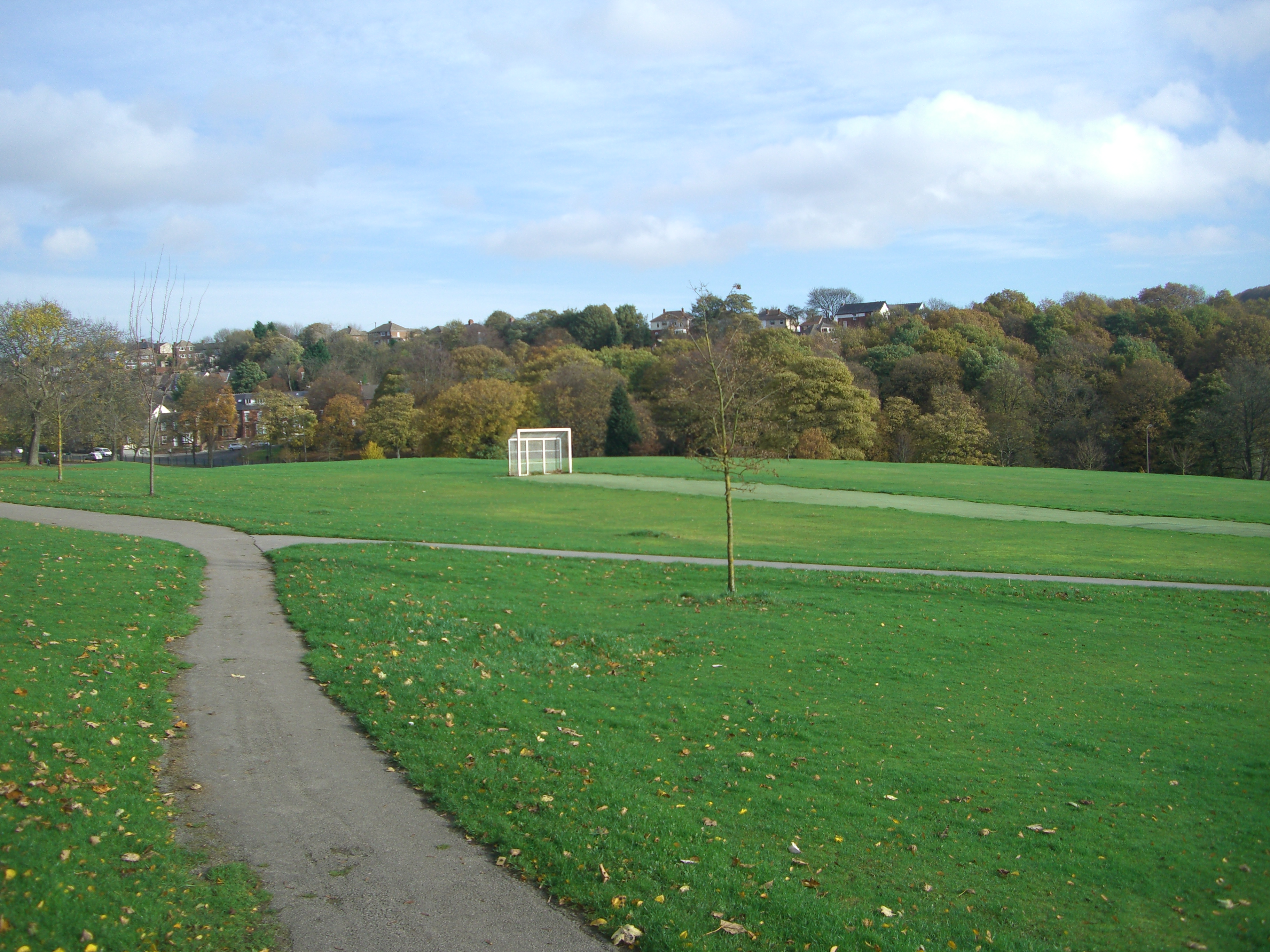 Firth Park (foreground) and Hinde Common Wood seen from Vivian Road in Sheffield, England.